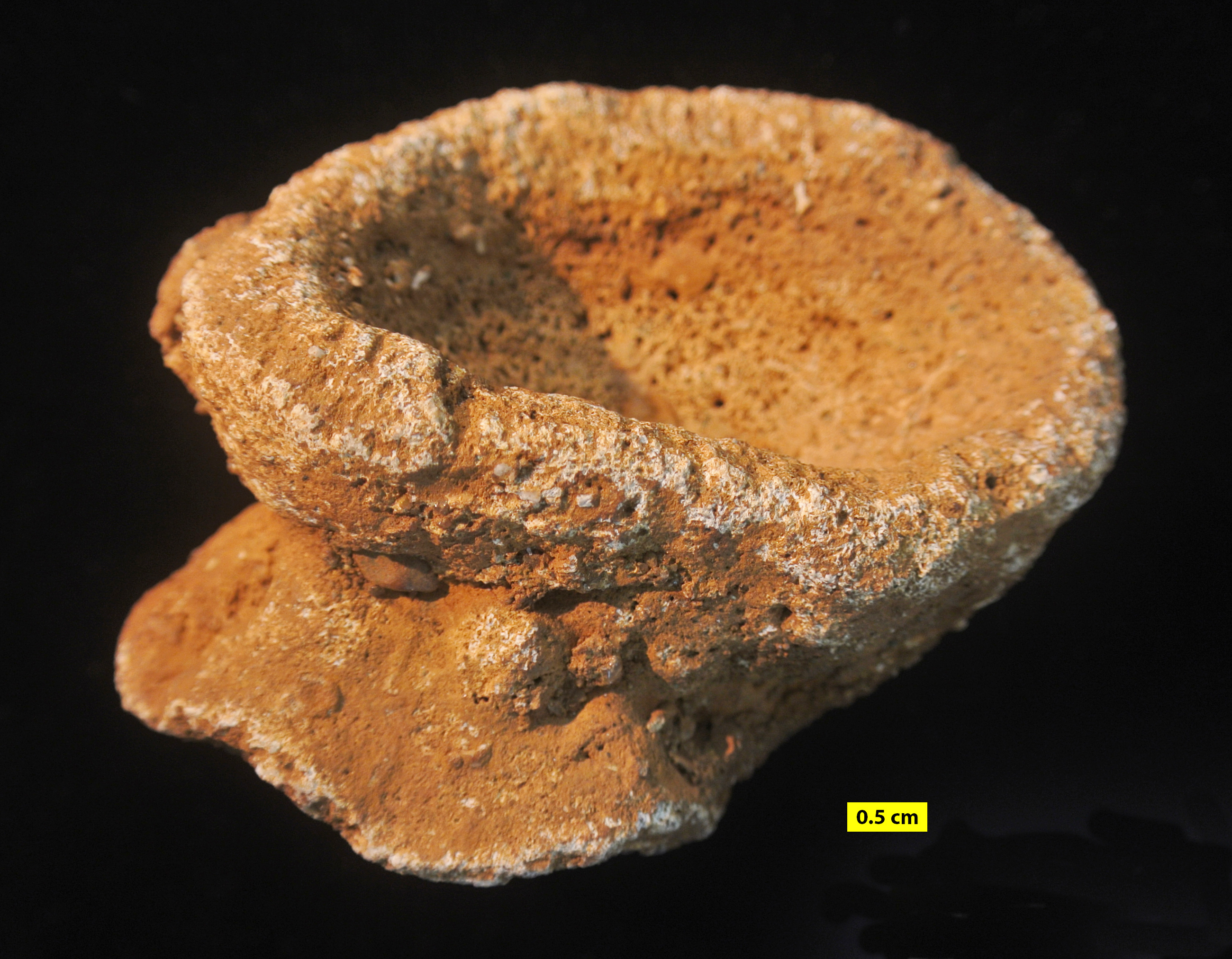 Raphidonema faringdonense from the Faringdon Sponge Gravels (Cretaceous) of England.